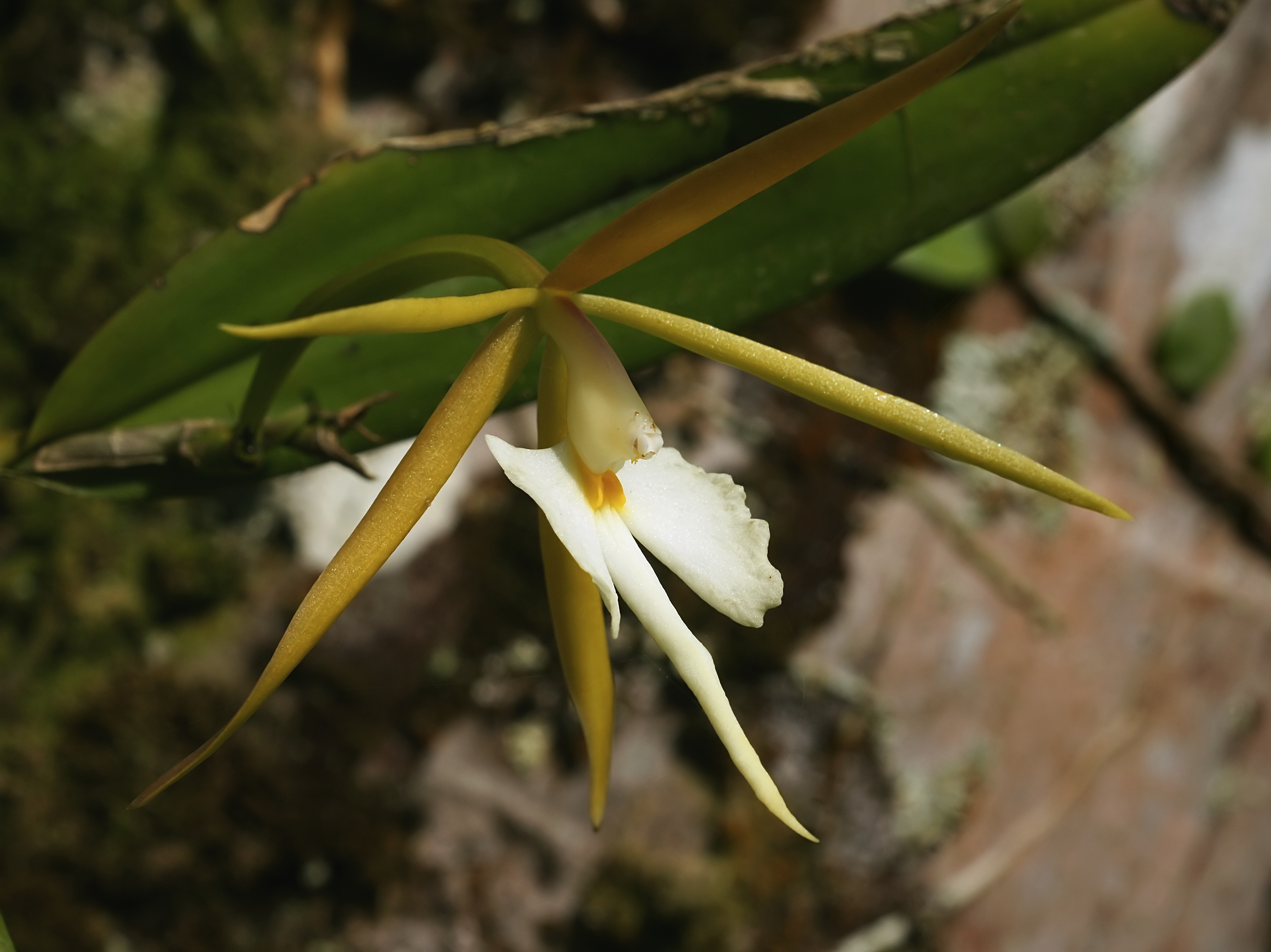 Night-scented Orchid at Tortuguero, Costa Rica